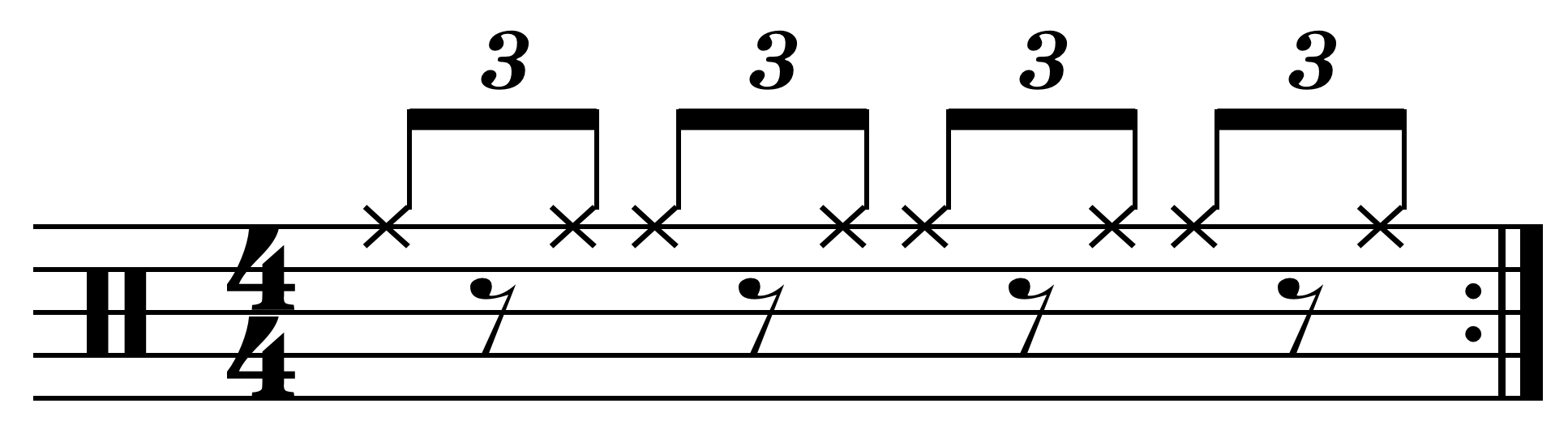 Basic shuffle rhythm. Created by Hyacinth (talk) 01:18, 29 July 2008 in Sibelius.